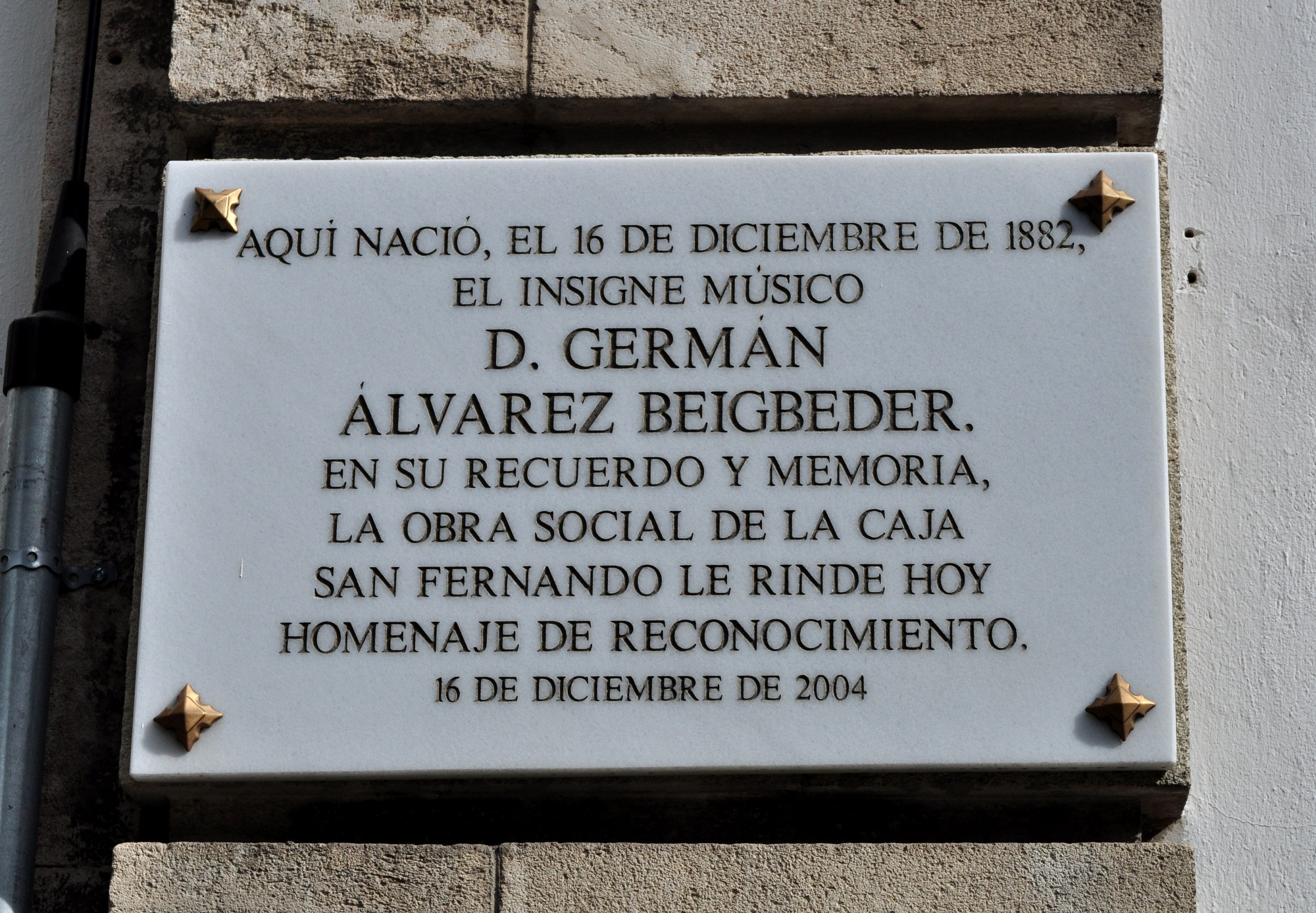 German Alvarez Beigbeder Birthplace, Jerez